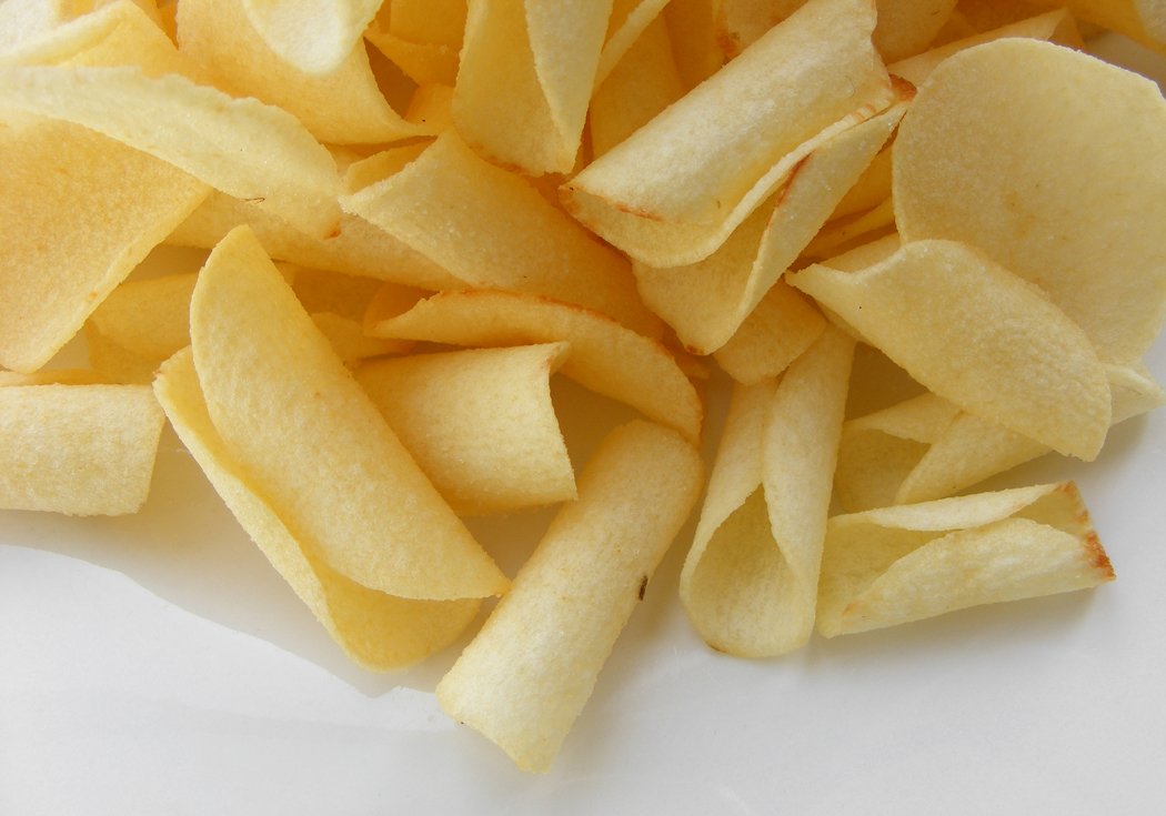 Homemade chips, made with arrowhead bulbs. Just peel the arrowheads, cut into thin slices (I use a mandolin, in which case it's best not to cut of the stalk as it's a perfect handle) and quickly drop one by one into 170C oil. Deep fry for about 90 seconds or until crispy. Add a little salt. I like these better than potato crisps!